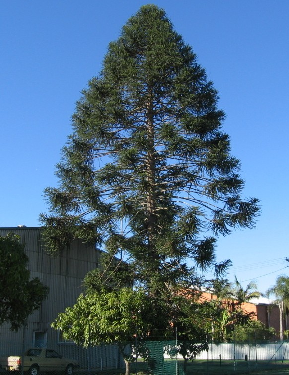 The Bunya Pine, Araucaria bidwillii. Photo taken by myself in Casino, NSW, Australia